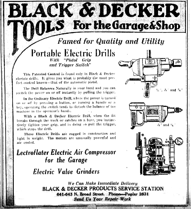 Newspaper ad for early Black and Decker drills.